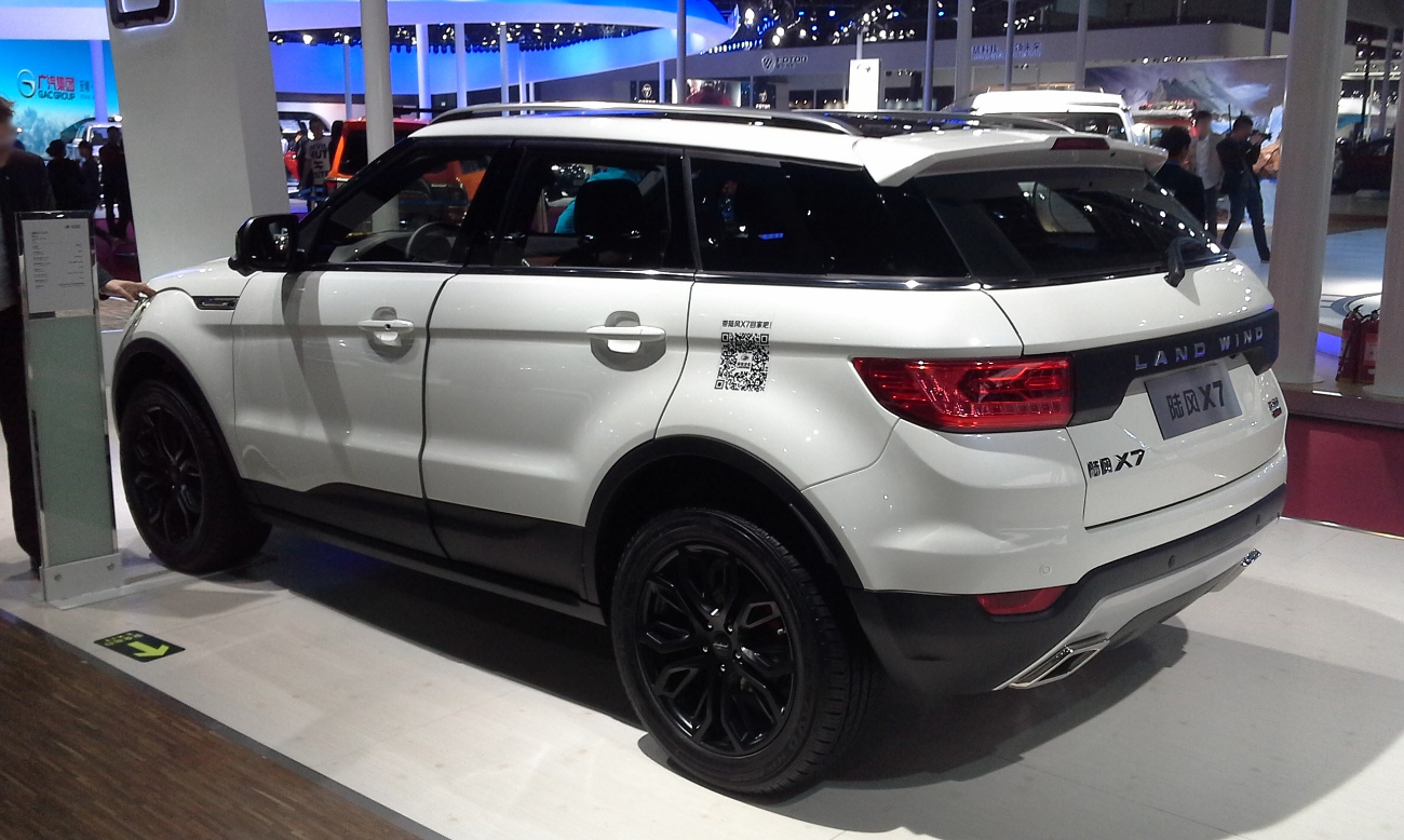 Landwind X7 photographed at the Auto Shanghai 2015, Shanghai, China.